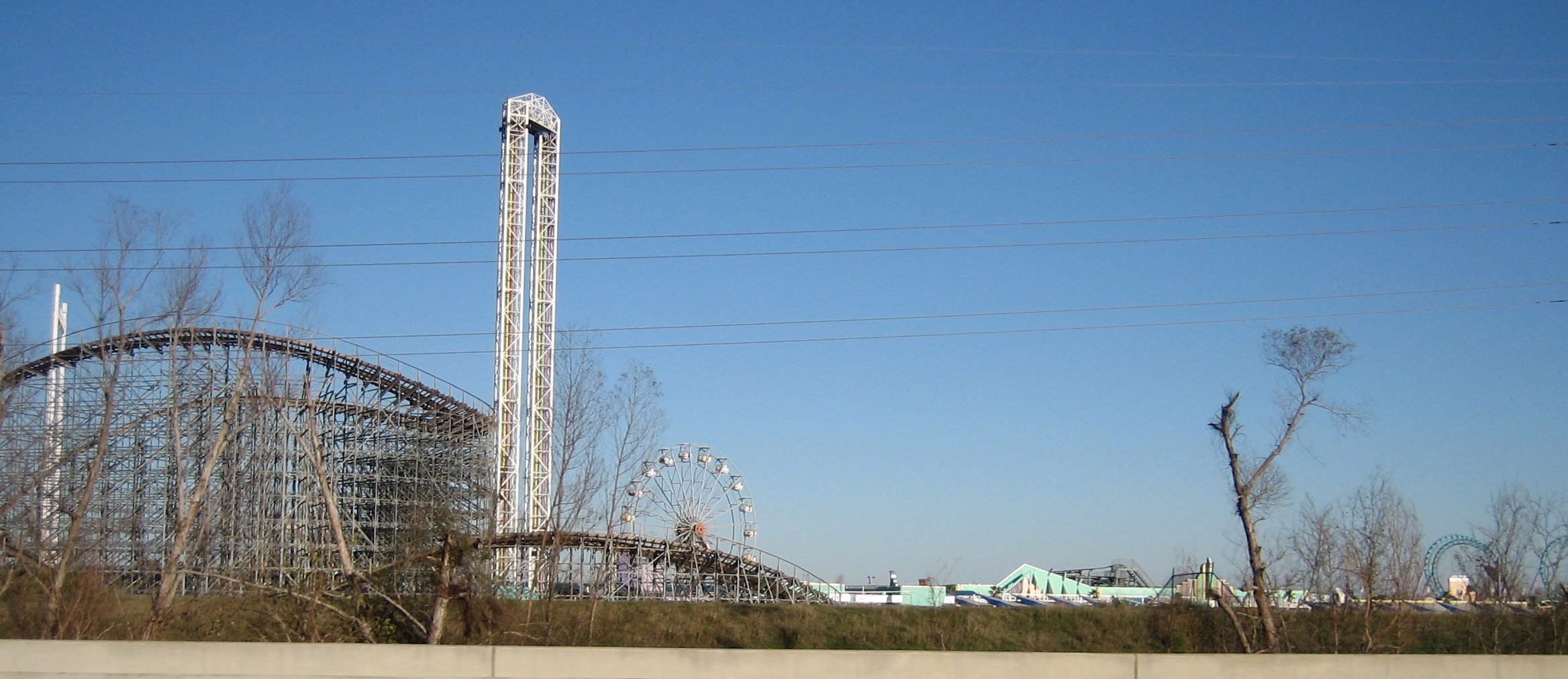 New Orleans after Hurricane Katrina: Six Flags New Orleans amusement park was flooded badly after the storm. Photo by Infrogmation, January 2006